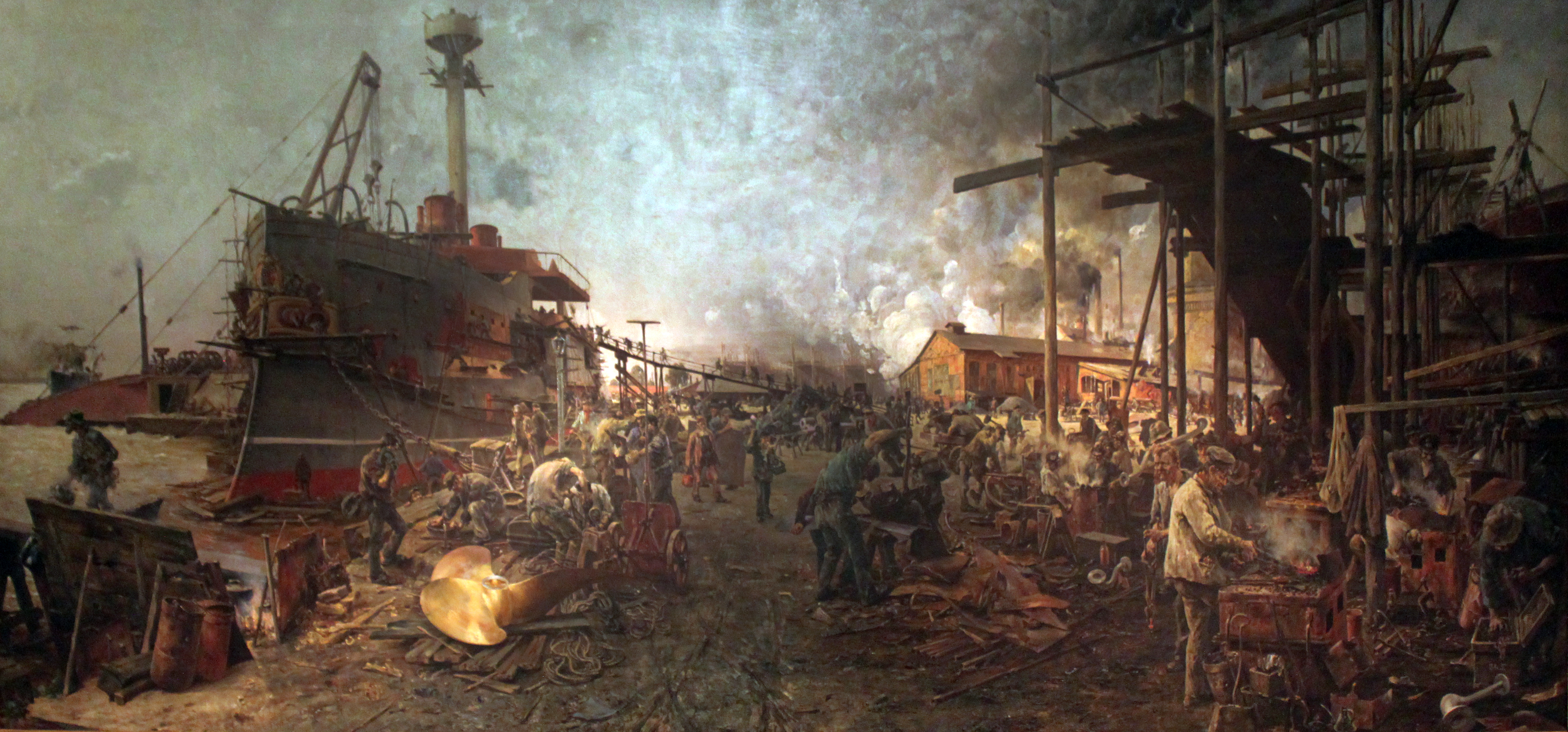 The building of the Oldenburg, a central battery ship, at the Vulcan dockyard in Stettin. Further data on the dhm website.